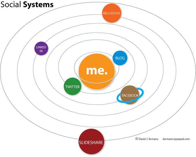 Social Media_me and other social media systems